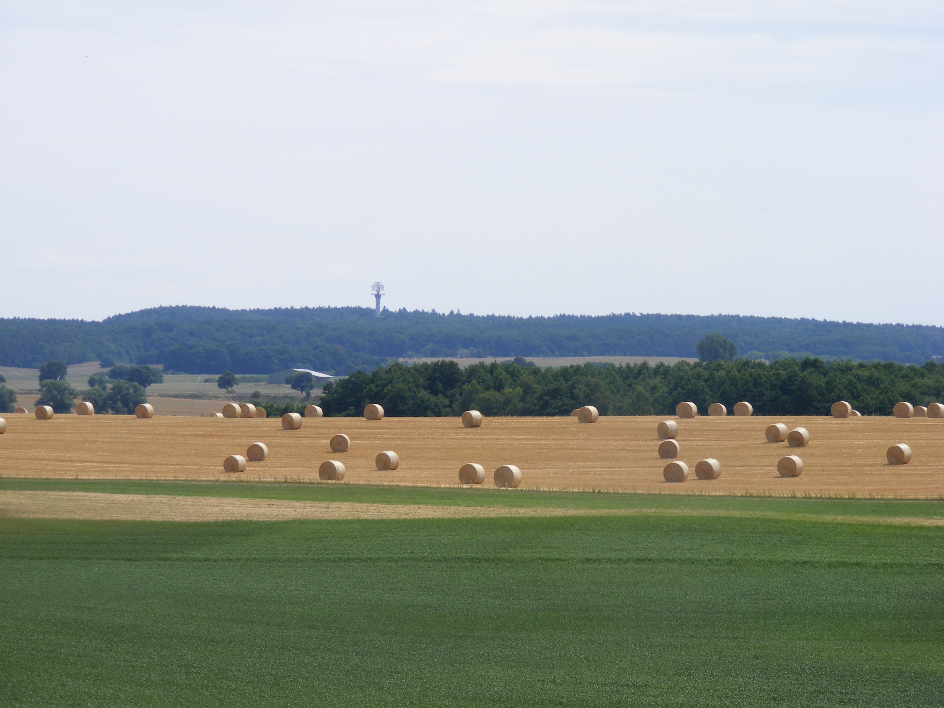 Schmooksberg near Güstrow, Mecklenburg